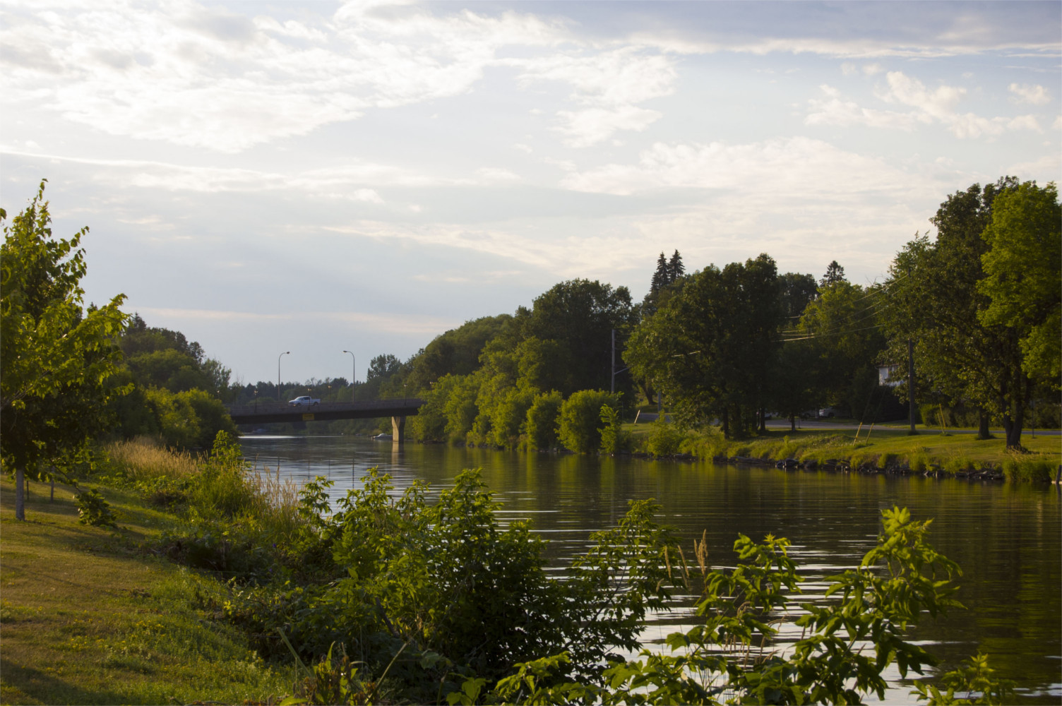 Riverside Drive